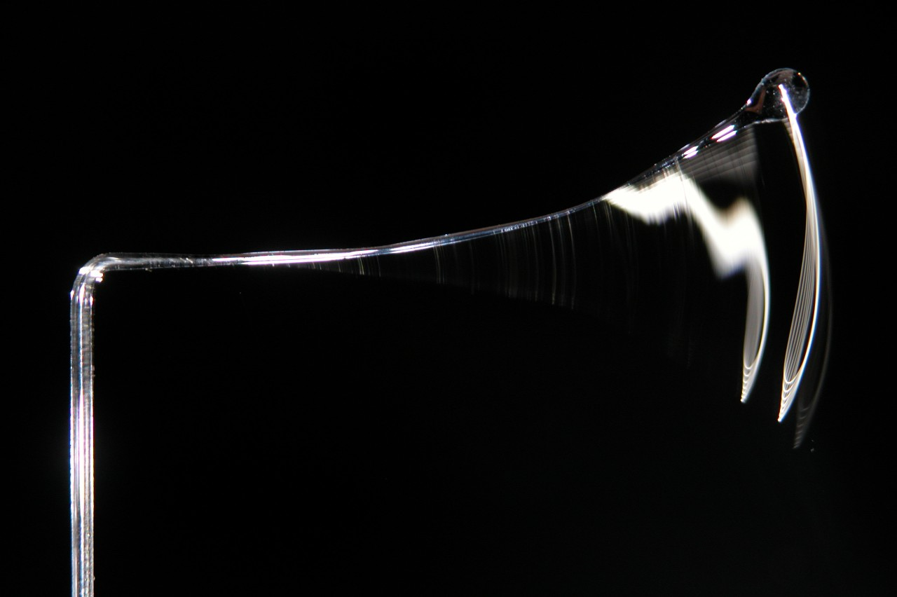 Made by myself. I melted a borosilicate capillary tube with a blowtorch into the shape (a cantilever beam) seen, clamped it in a micrometer (that's what micrometers are for, yes?), and photographed it vibrating. Flash photo + 1/8 second exposure to show vibration and a frozen moment in one picture. A micrometer was used because it has carbide faces which are four times stiffer than glass (and twice stiffer than steel), makes for an excellent cantilever beam mount. Though I've had problems with poorly clamped beams, this probably makes no difference but it makes me sound smarter. This photo was selected out of 59 tries.